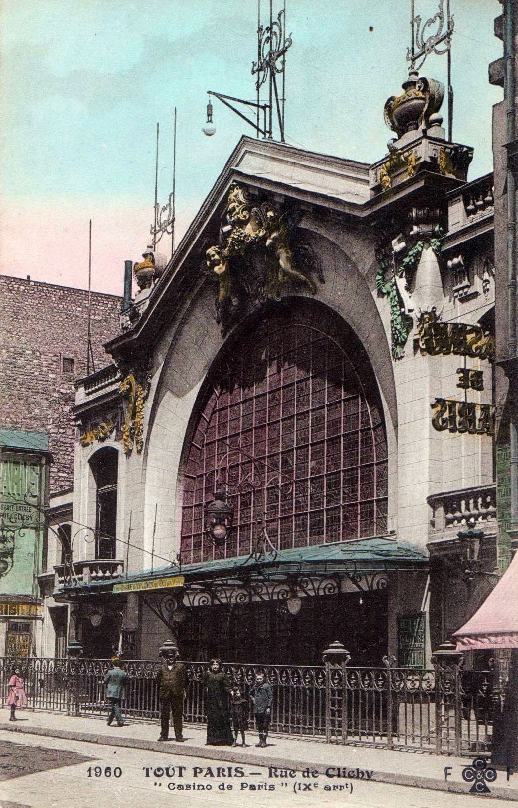 Paris. Rue de Clichy. Casino de Paris. Postcard, c. 1910. Publisher: F. Fleury. Paris.